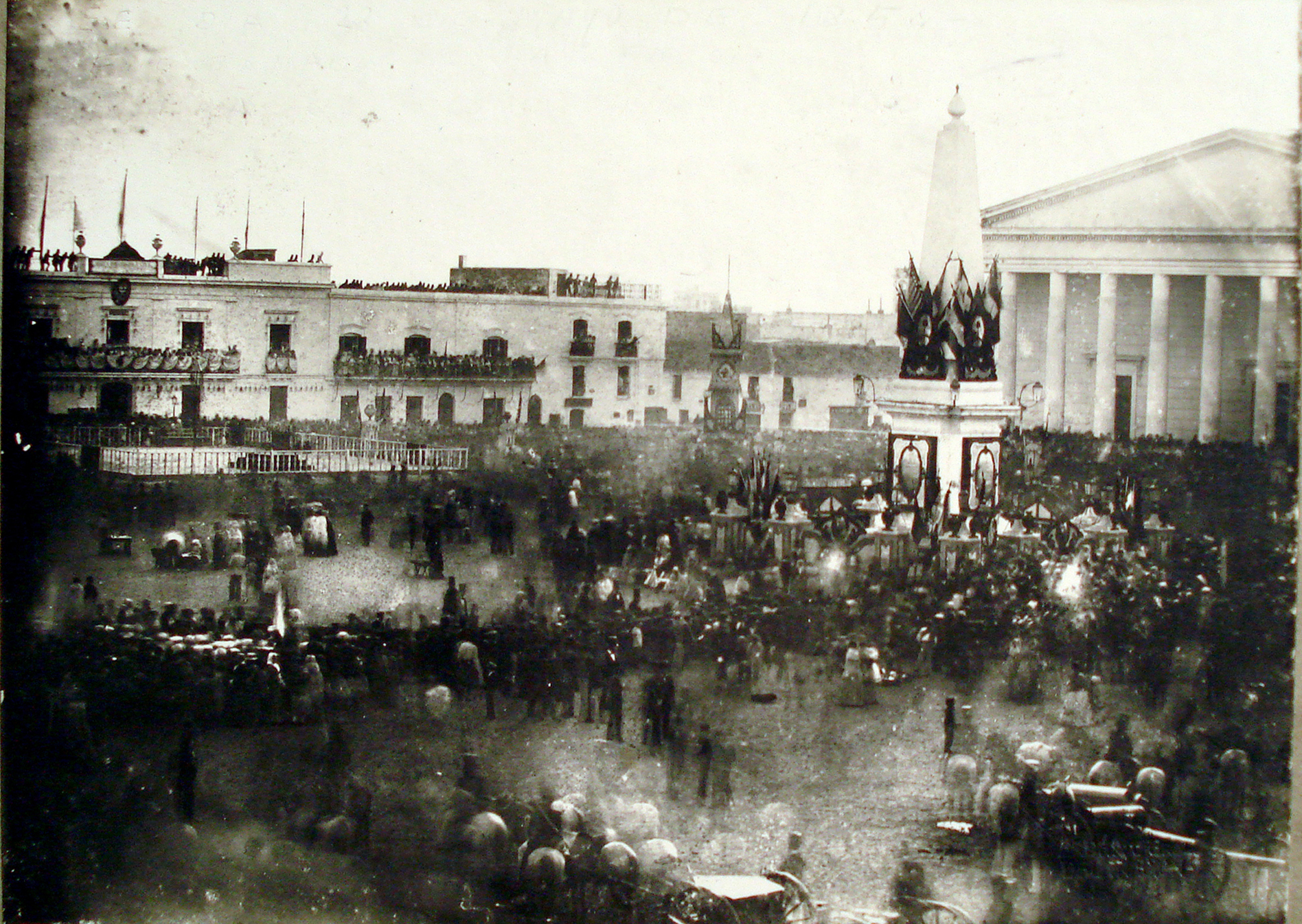 Oath of the Constitution of Buenos Aires Province at "Plaza de la Victoria" (current "Plaza de Mayo"). The photo was taken from the "Recova", a building located at the middle of the Plaza, where Defensa street is located nowadays.